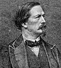 Portrait of Antoine Roussin author of Album de la Réunion, published as a series of brochures from 1855 onward.